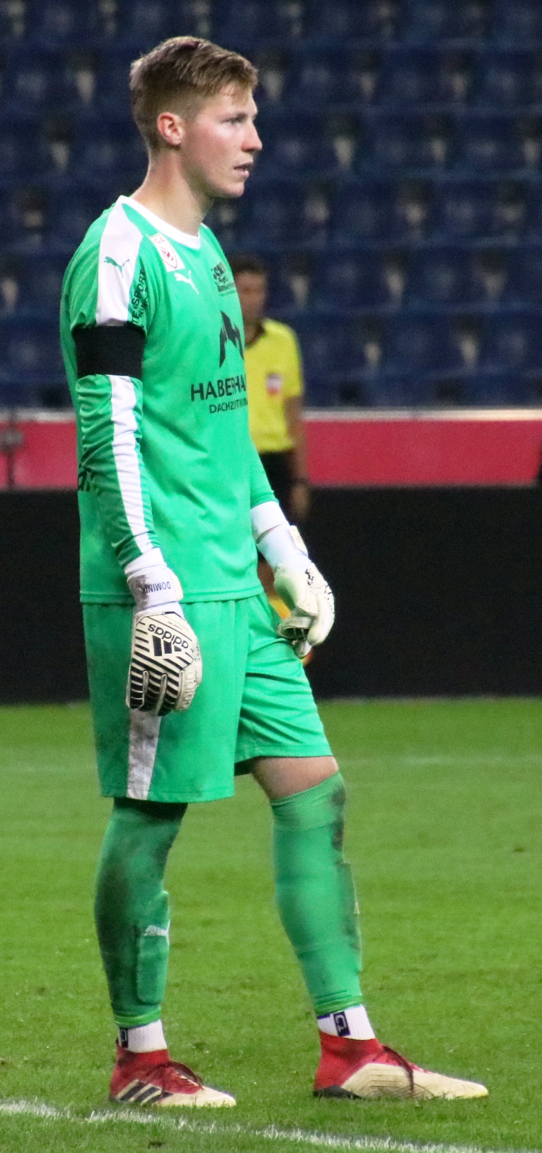 Austria 2nd league league match 7th round